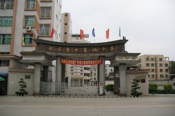 Shaoguan Tianjiabing Middle School Junior Division